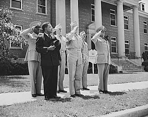 Edwin Barclay, President of the Republic of Liberia, when he visited Fort Belvoir, Virginia, on May 29, 1943.